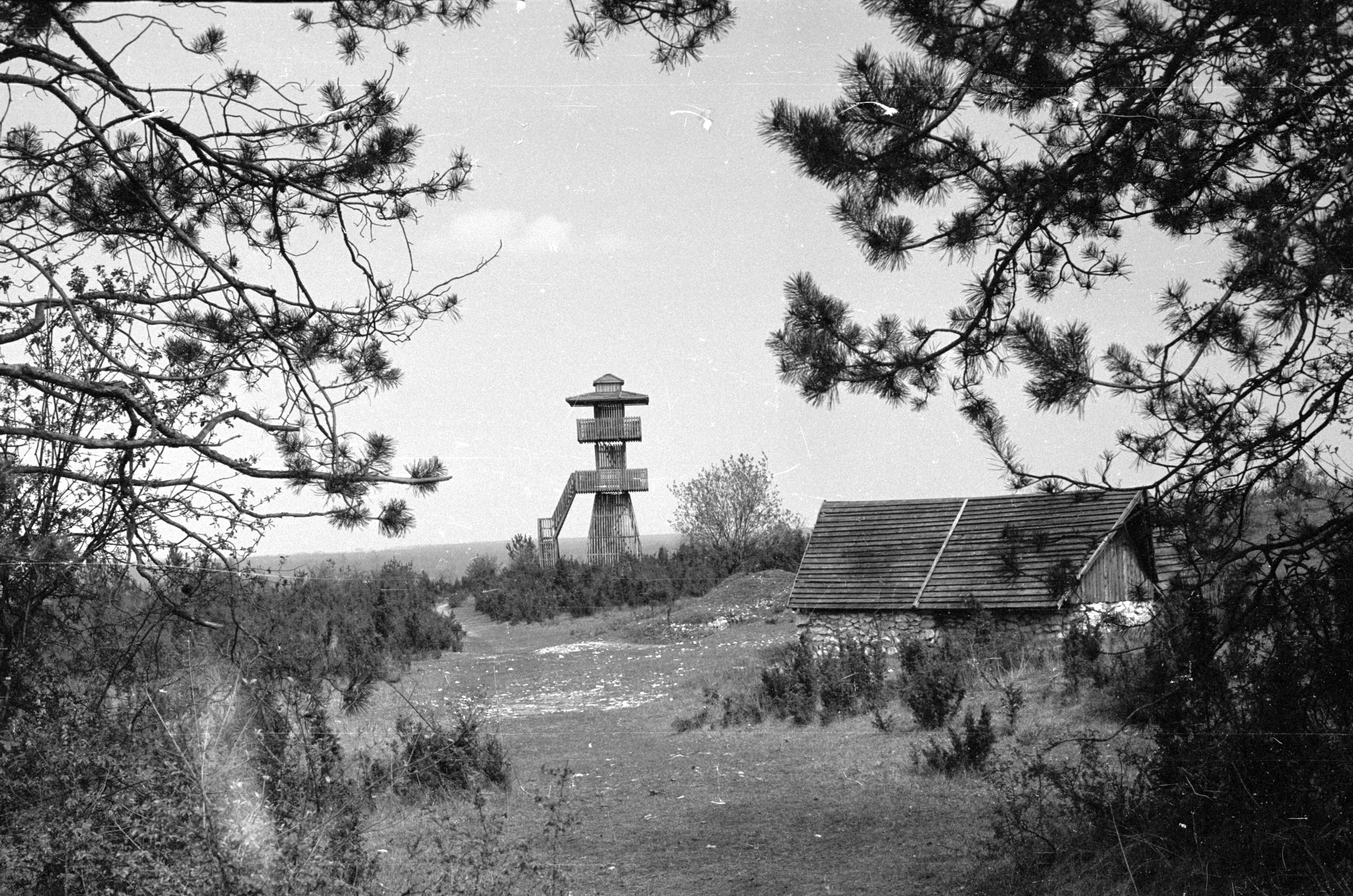 Overall view on the top of Zelce hill in Węże wildlife reserve. Cave "Stalagmitowa" in the foreground, observation tower in the background (demolished in 2002).